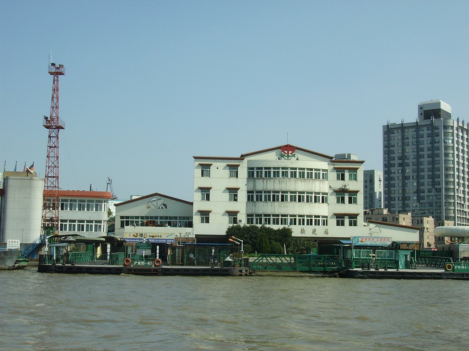 Nanmatou Rd Ferry